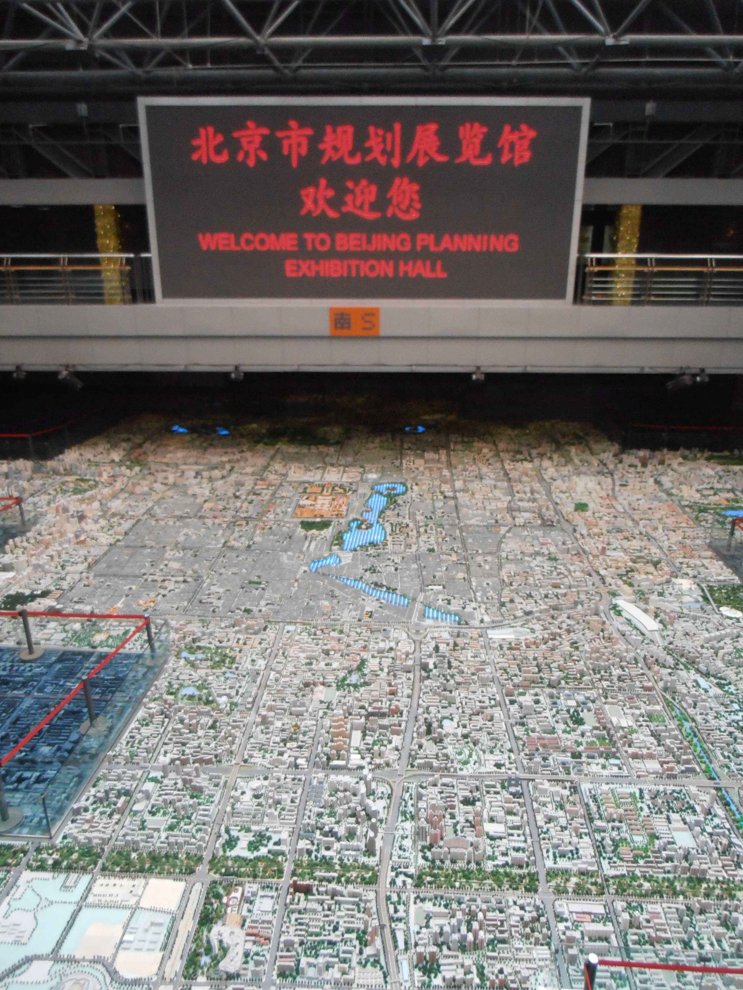 A model of Beijing, view from above.